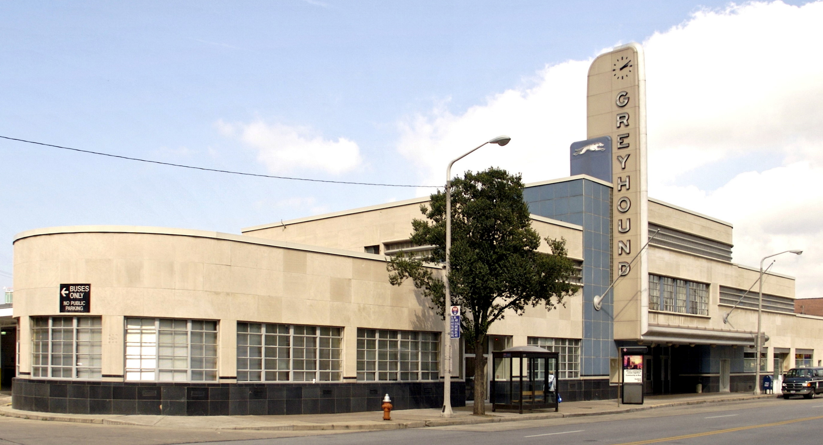 Greyhound bus terminal, Cleveland, OhioCleveland Art Deco